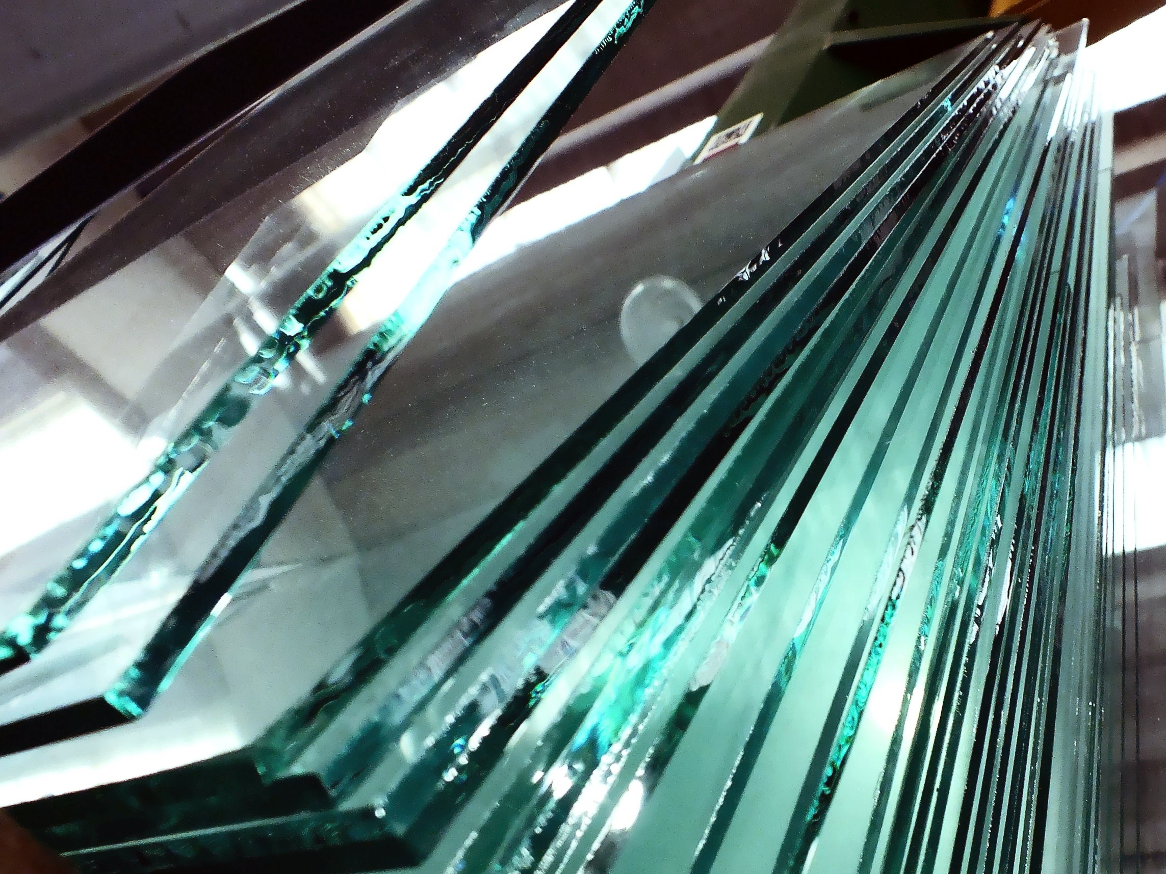 Flat glass